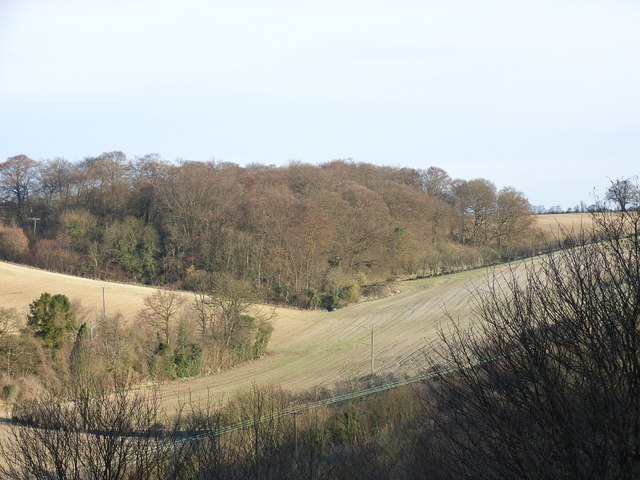 Little Gomm's Wood. Viewed from the BBOWT nature reserve on the eastern flank of the valley.